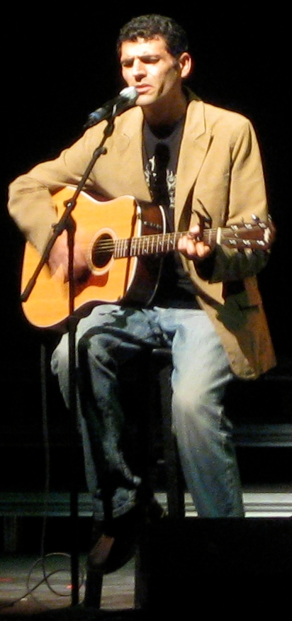 Gor Mkhitarian, an Armenian singer, performing at the Armenian Genocide Commemoration presented by the City of Glendale at the Alex Theatre.